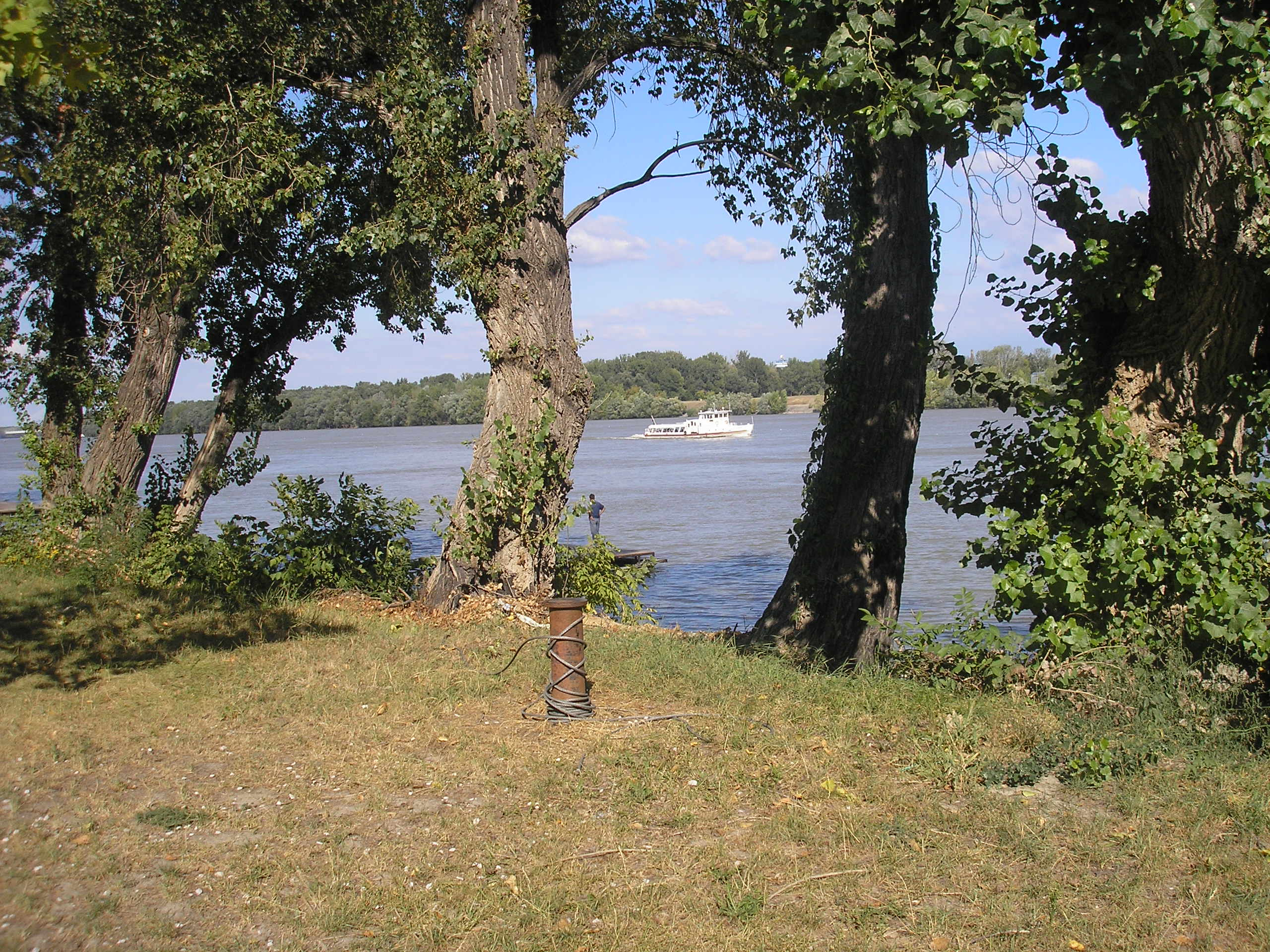 Old trees at ROman Beach, Budapest, Hungary